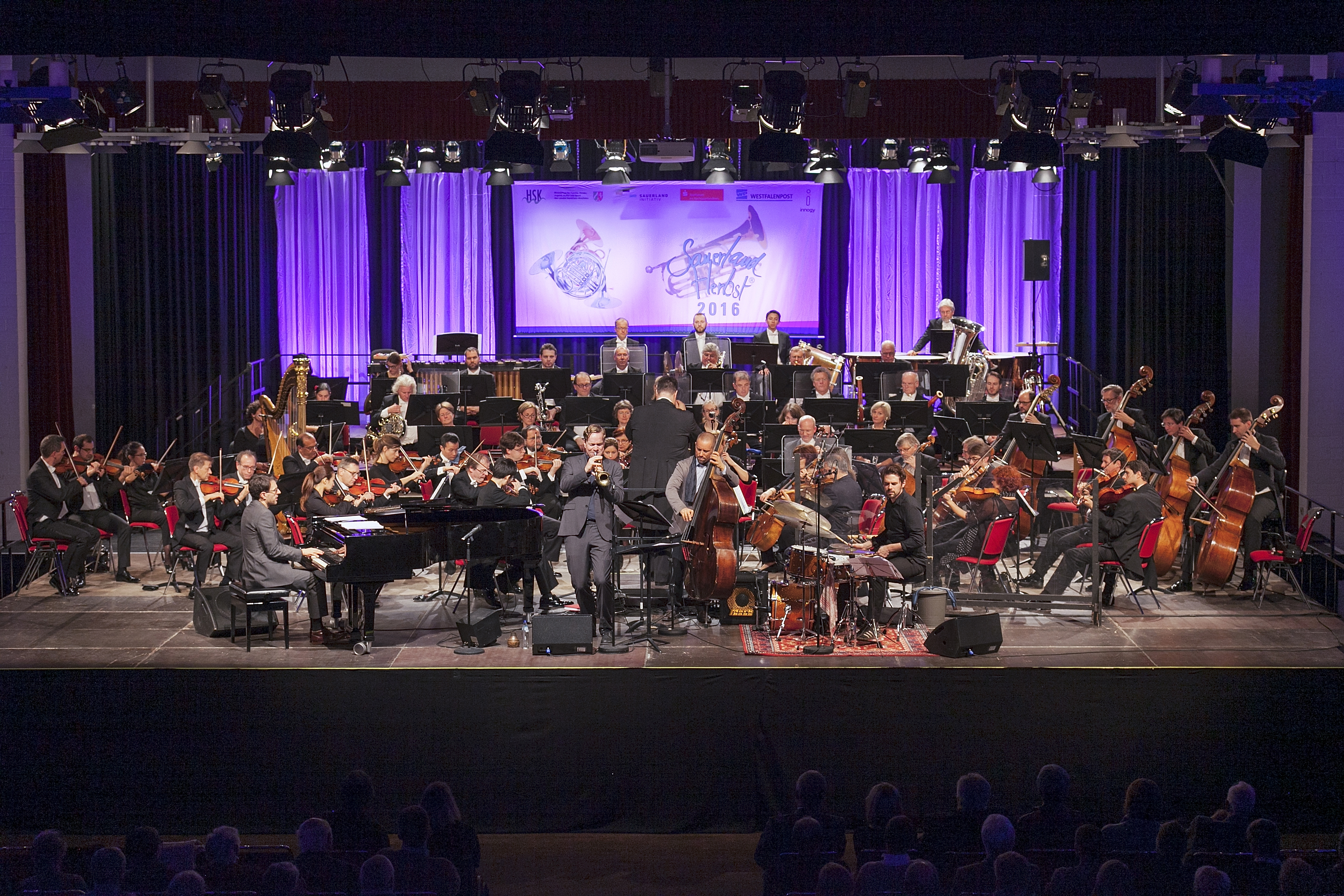 Foto taken at the appearance on November 3rd, 2016